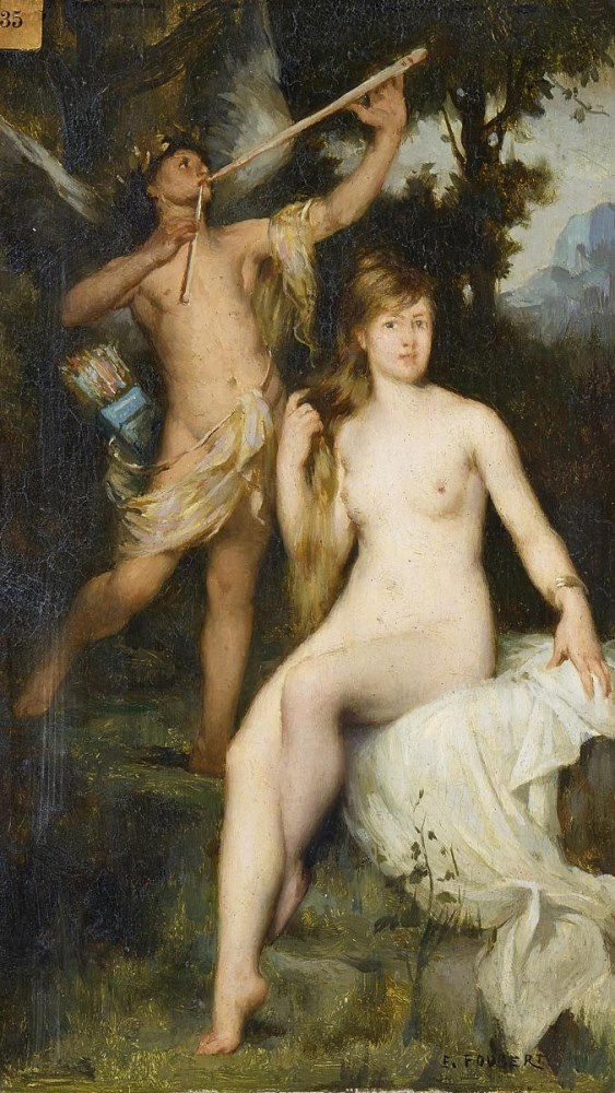 Pan and Nymph in a Landscape